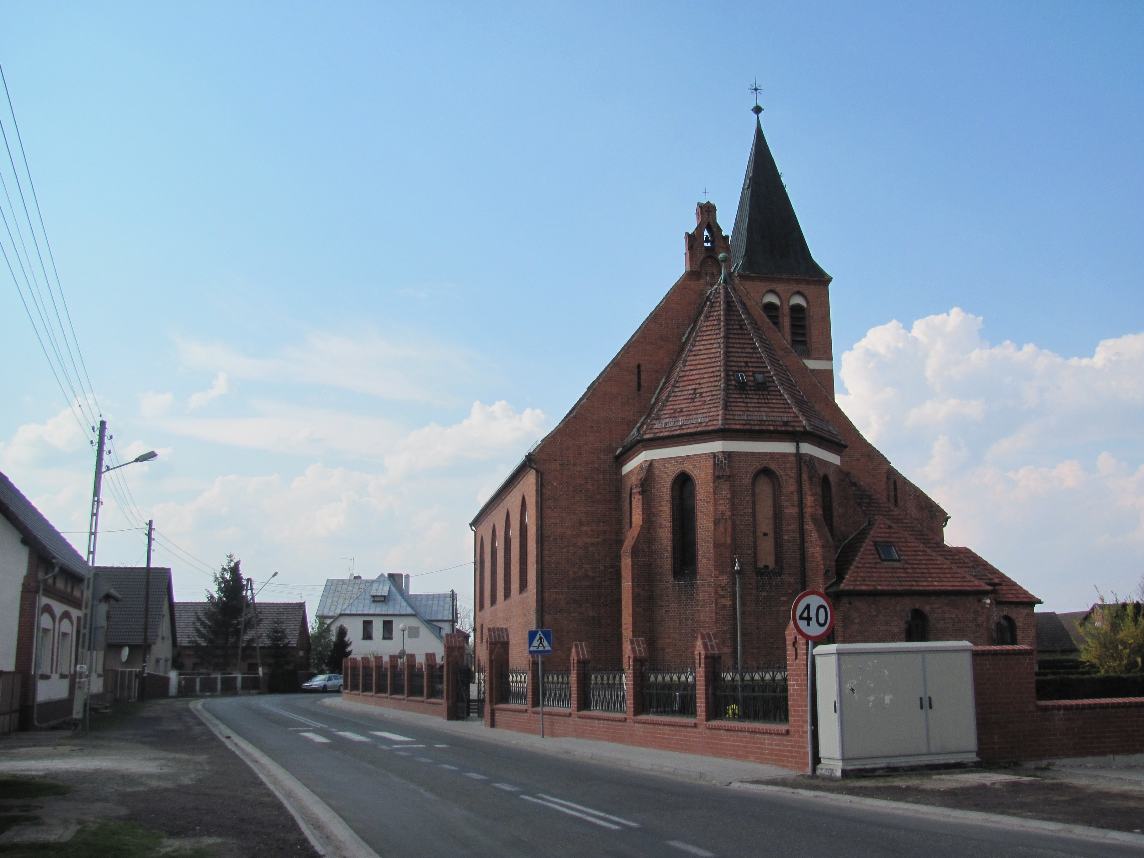 St. Stephen Church in Brynica